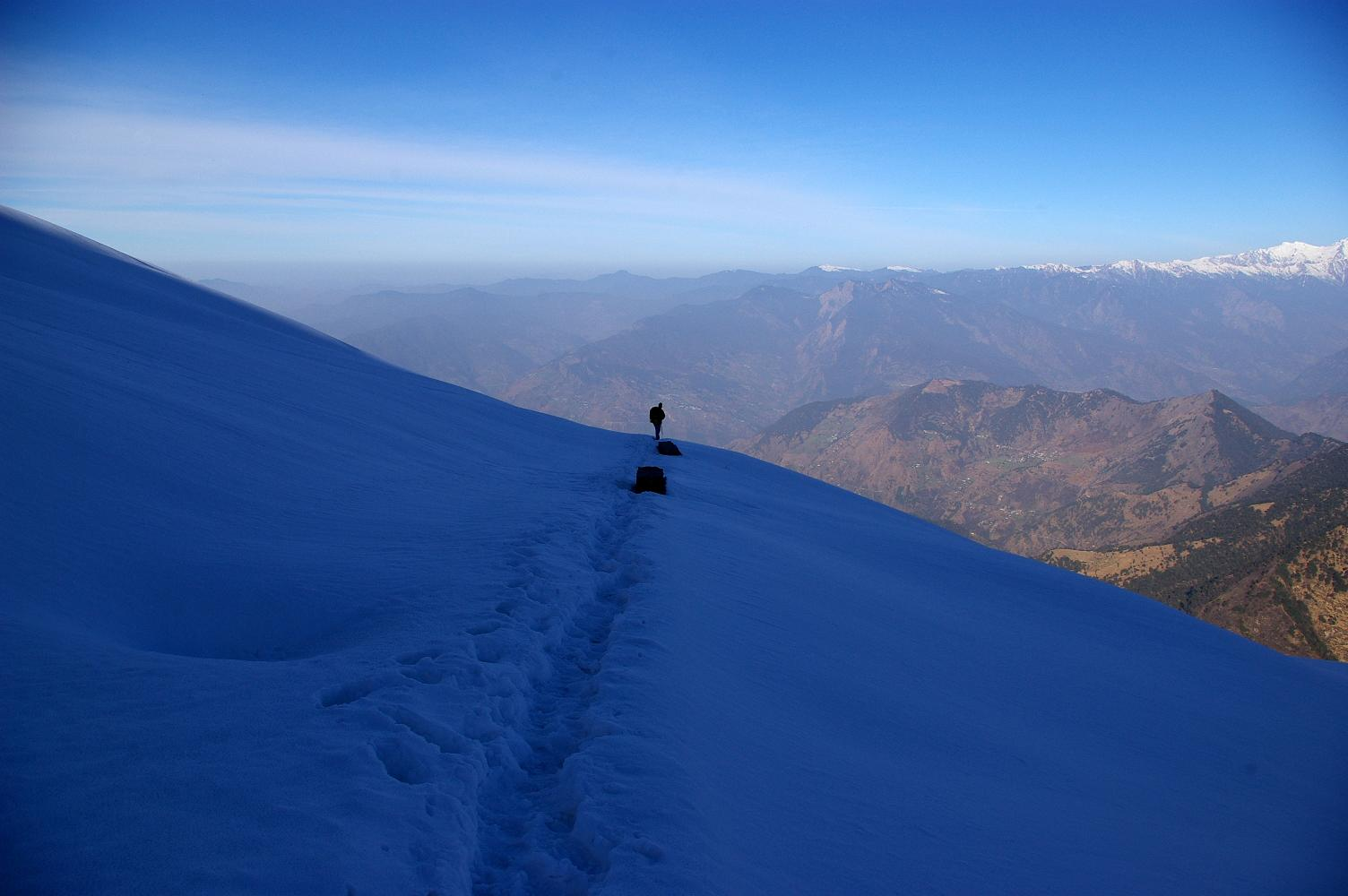 Enjoying the heavenly beauty of Himalayas while trekking down from Tungnath, Chopta information and more pictures of Chopta